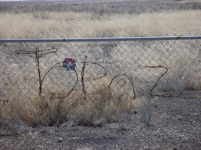 Sign made of barbed wire, attached to fence at monument (Photo: Keith R. Wood, 2006)